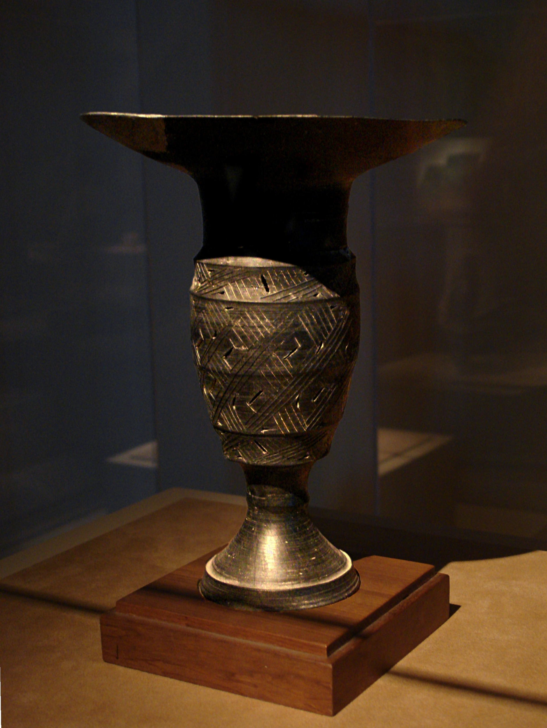 Black Pottery Goblet Shandong Longshan Culture Late Neolithic Period (ca. 2500 - 2000 B.C.) Excavated at Jiaoxian, Shandong Province, 1975 This goblet, made from a particularly thin material known as "eggshell pottery", was made in separate parts- stem and body were produced independantly and then fitted together. Wet firewood was added to the kiln during firing at a relatively low tempurature, resulting in carbon from the resulting smoke permeating the pottery and turning it black.